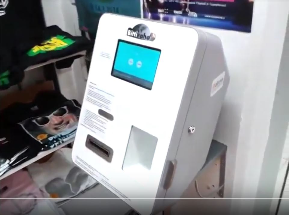 Finland's first Bitcoin ATM